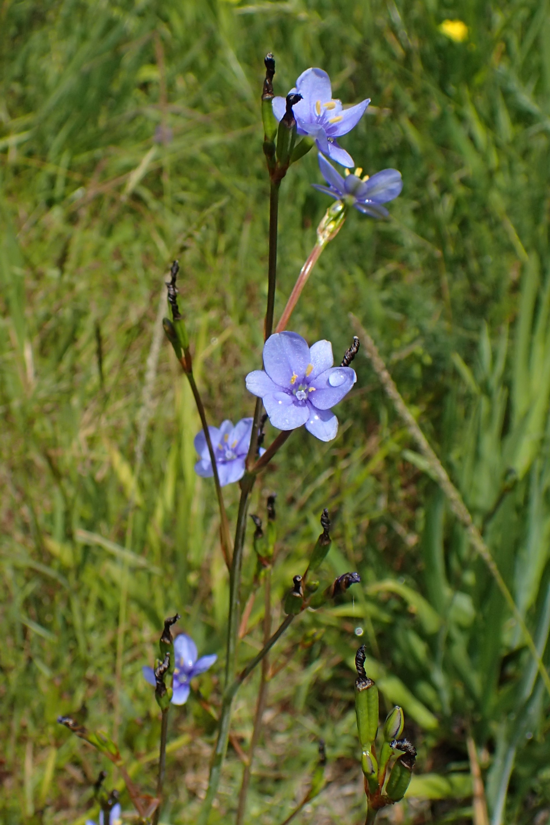 Aristea ecklonii in Hahei, Waikato (New Zealand)